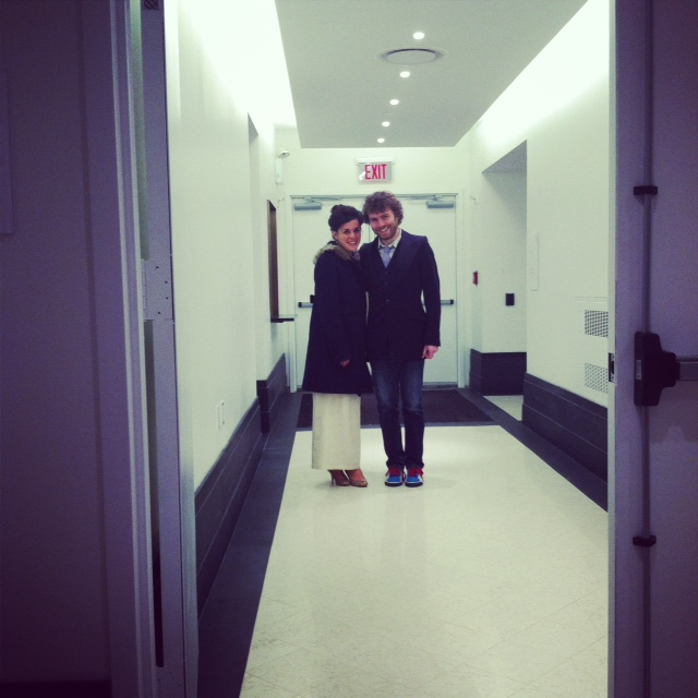 A picture taken by me backstage at Carnegie Hall after he performed.